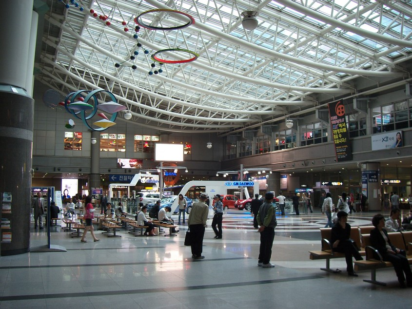 Yongsan Station